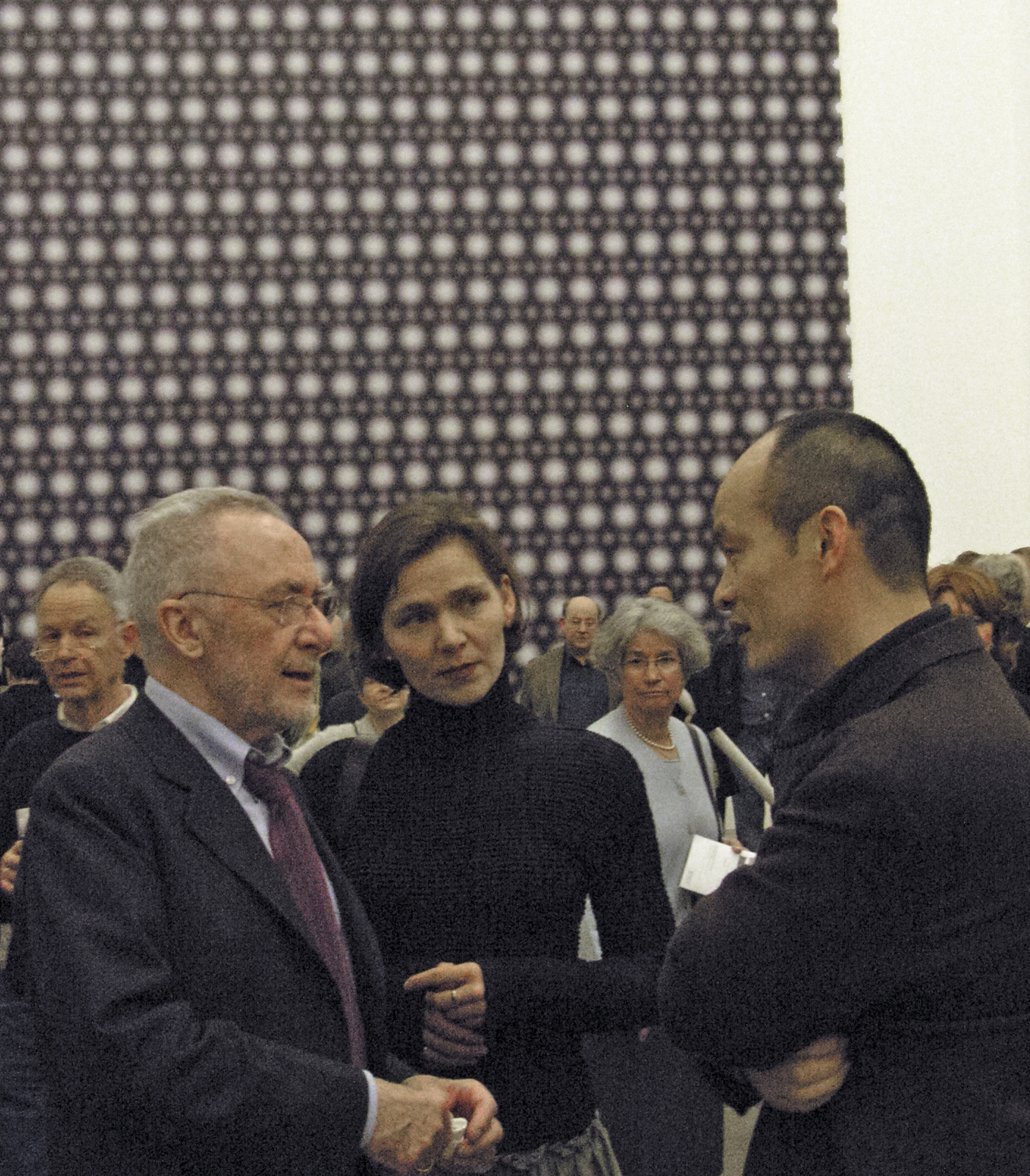 K20